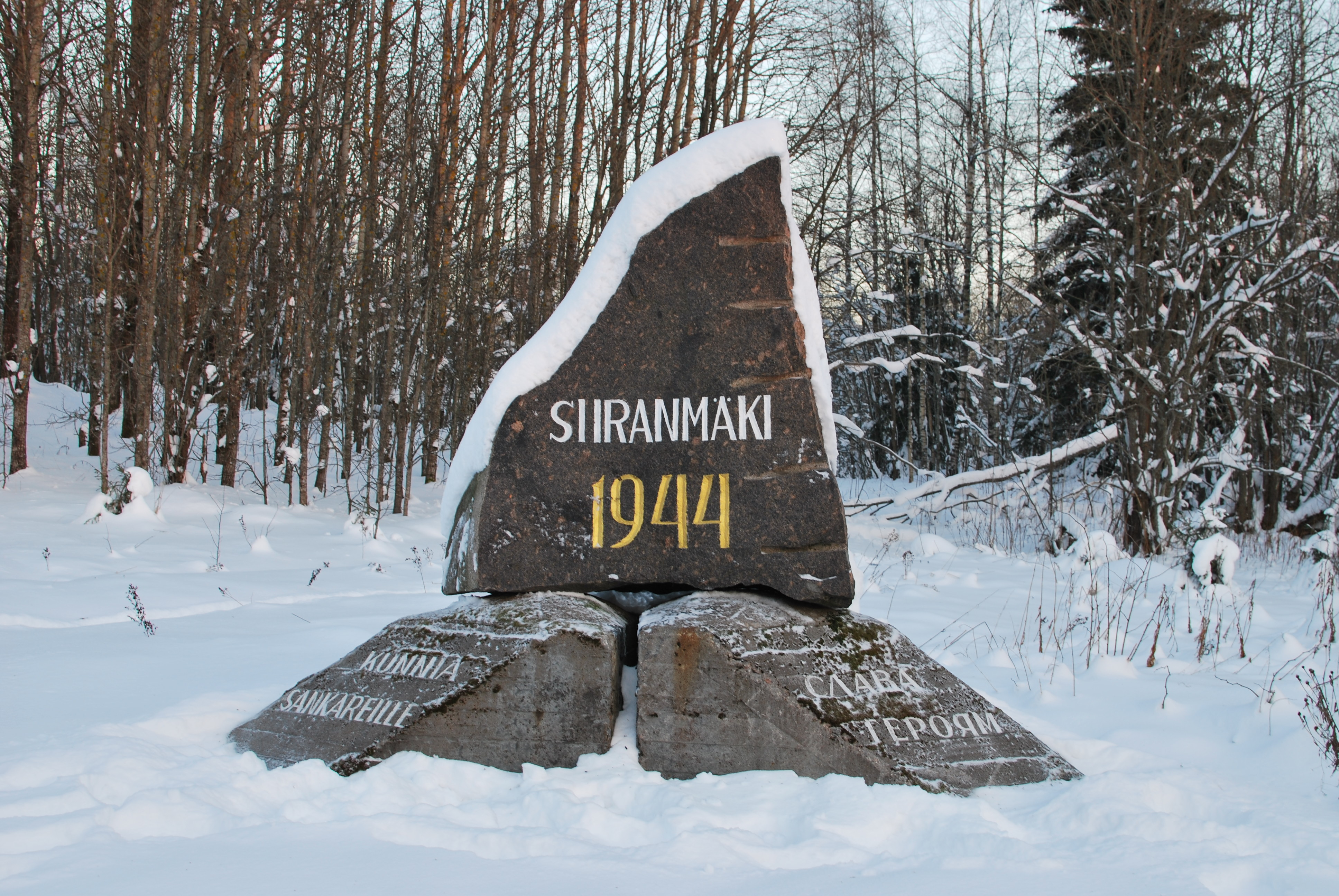 Memorial in Siiranmaki